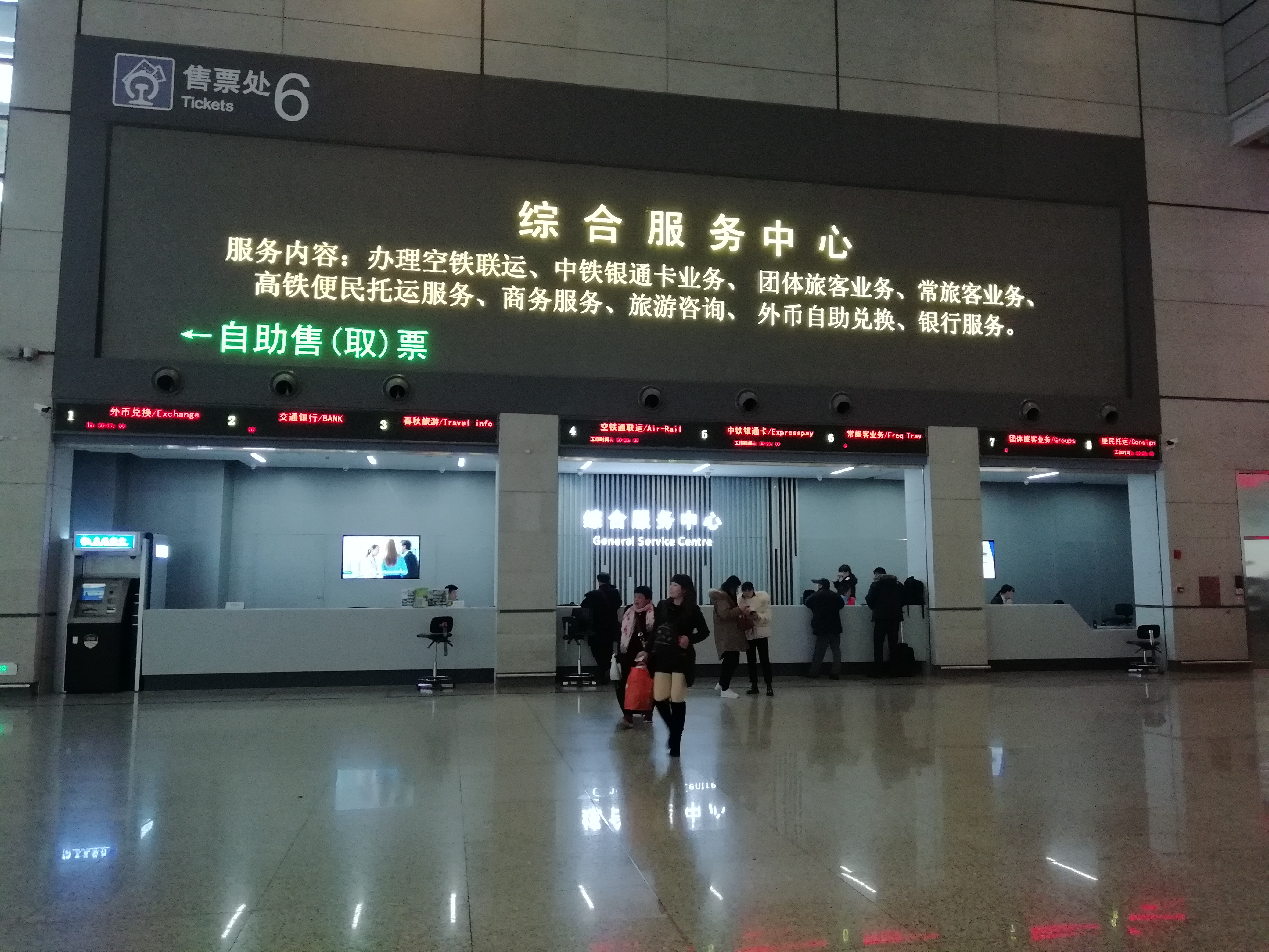 General Service Center of Shanghai Hongqiao Railway Station, provides travel information, currency exchange services etc.